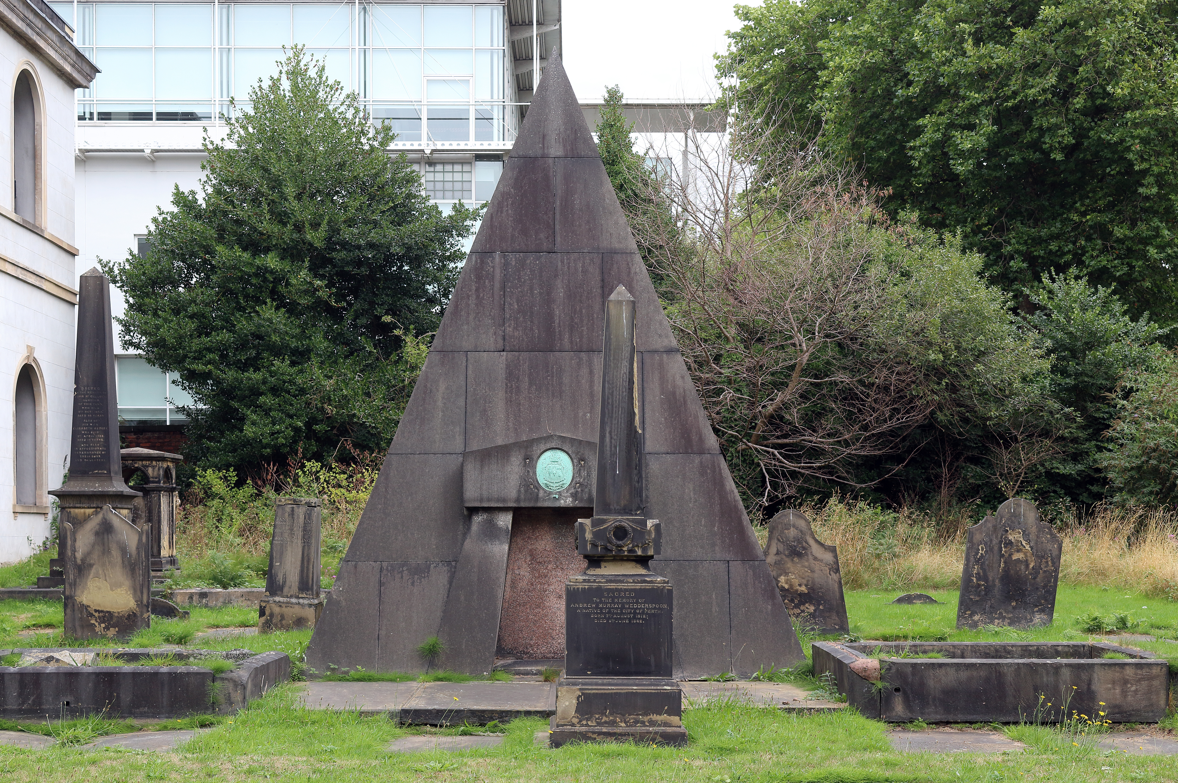 Front view of Mackenzie Monument, former St Andrew's church to left.